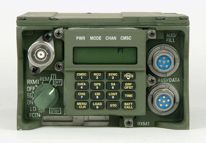 The front of the Exelis SINCGARS RT-1523E